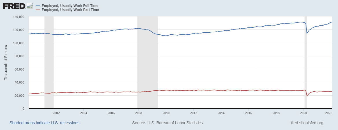 U.S. Full Time and Part Time Workers from FRED database Other information Two axis chart